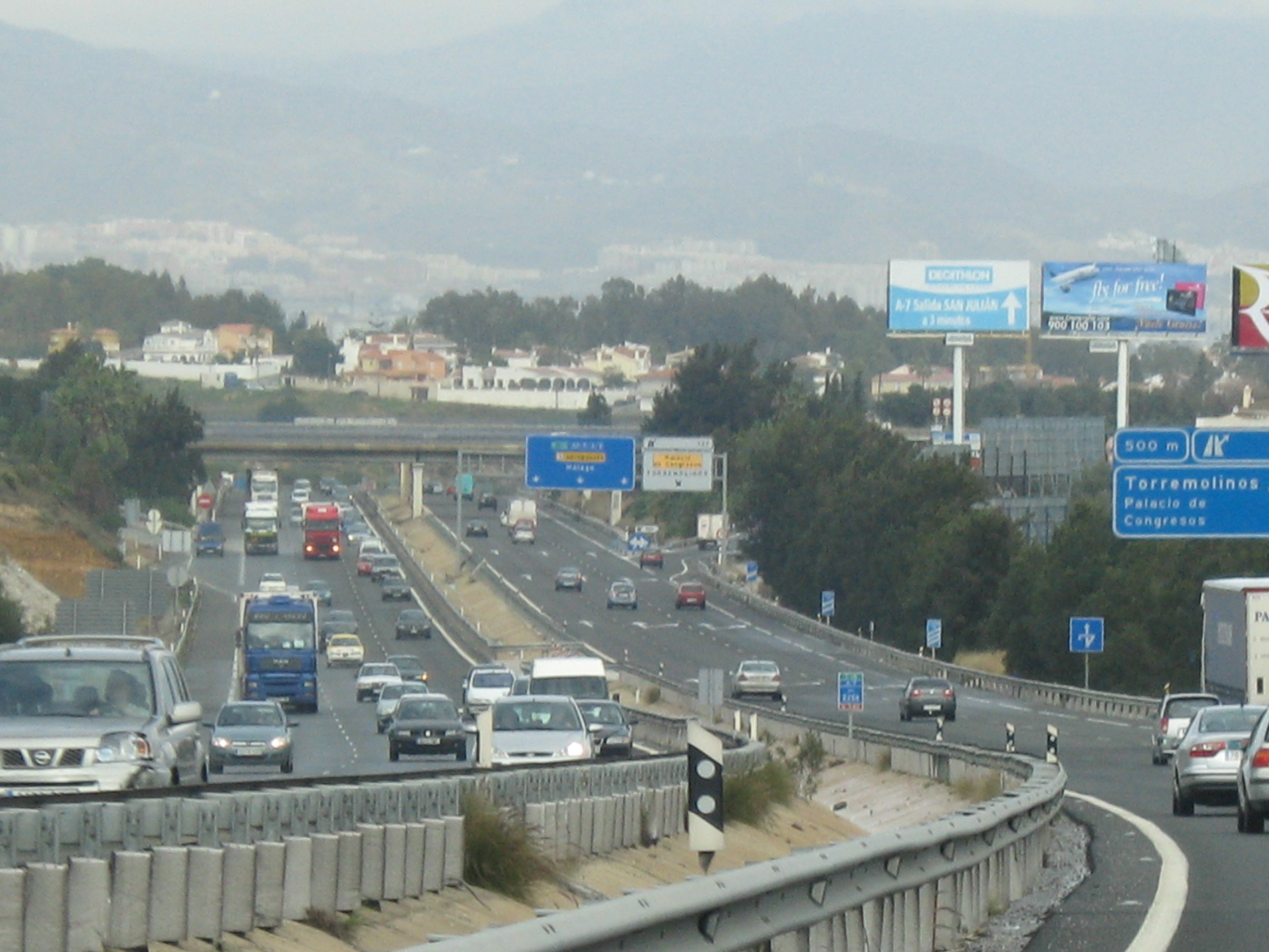 A Spanish motorway